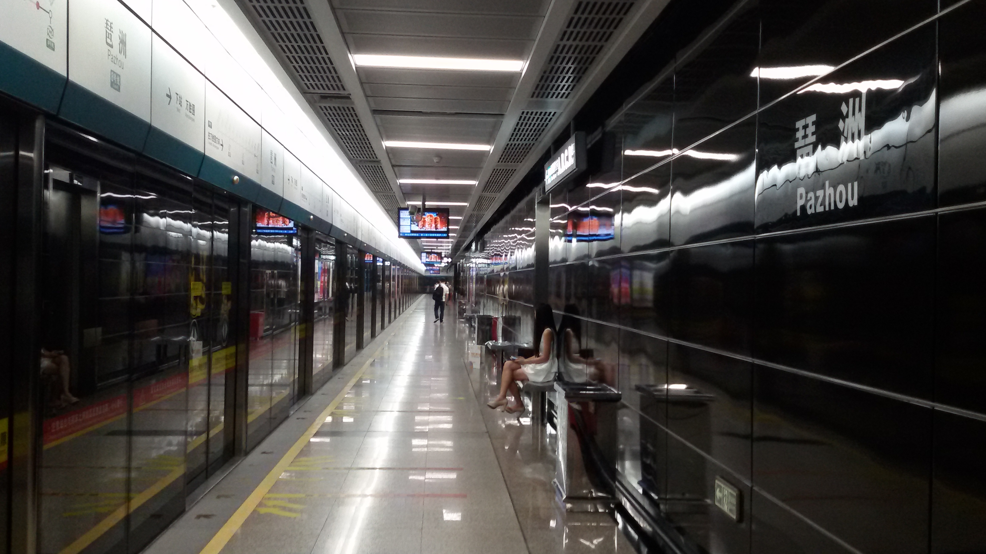 BIG WORD for Pazhou Station in Guangzhou Metro 粵語: 廣州地鐵，琶洲站嘅月台。